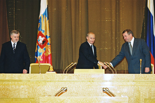 THE KREMLIN, MOSCOW. President Putin with State Duma Speaker Gennady Seleznyov, right, and the Speaker of the Federation Council, Sergei Mironov before delivering annual address to the Federal Assembly, Russia's Parliament.